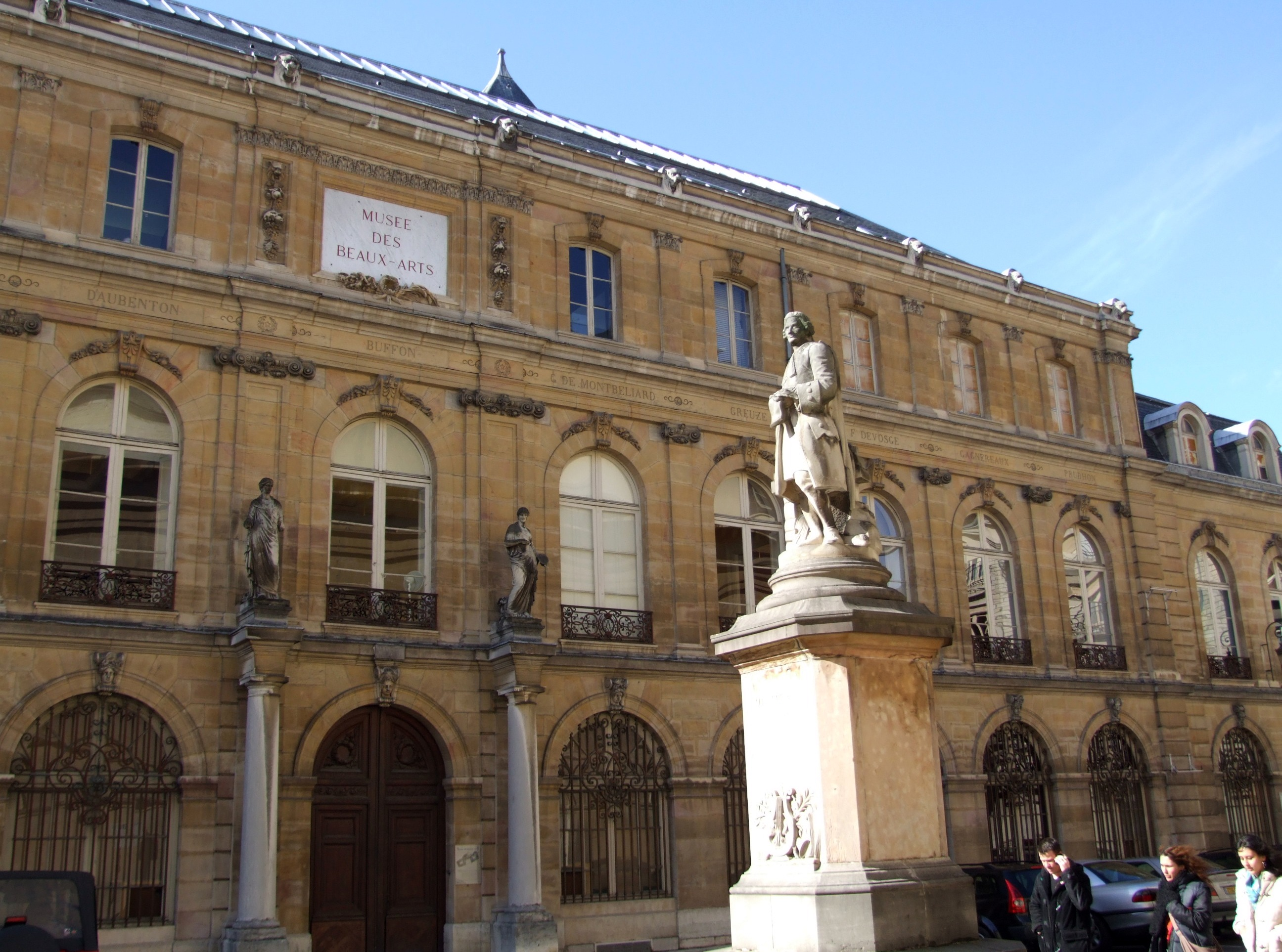 Dijon, Burgundy, FRANCE